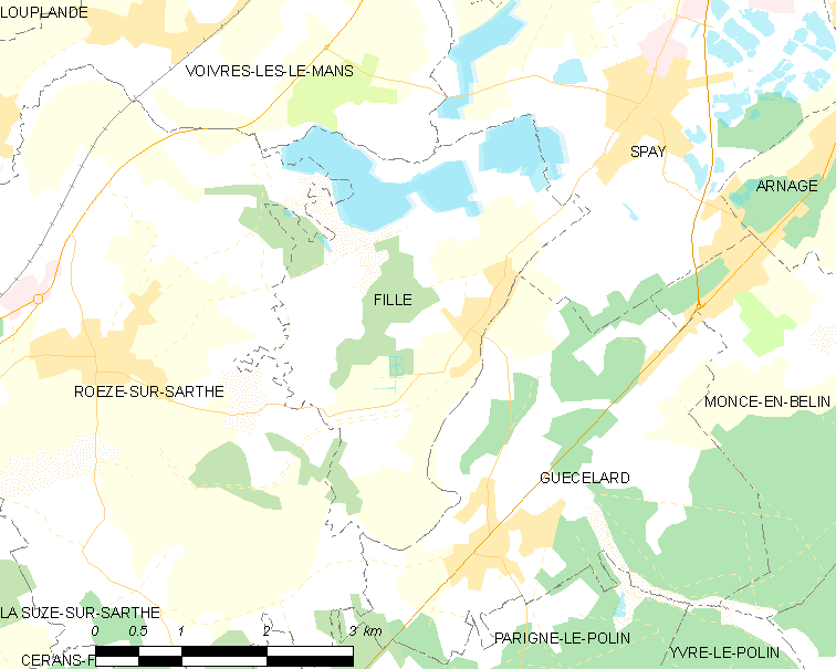 Map of French municipality